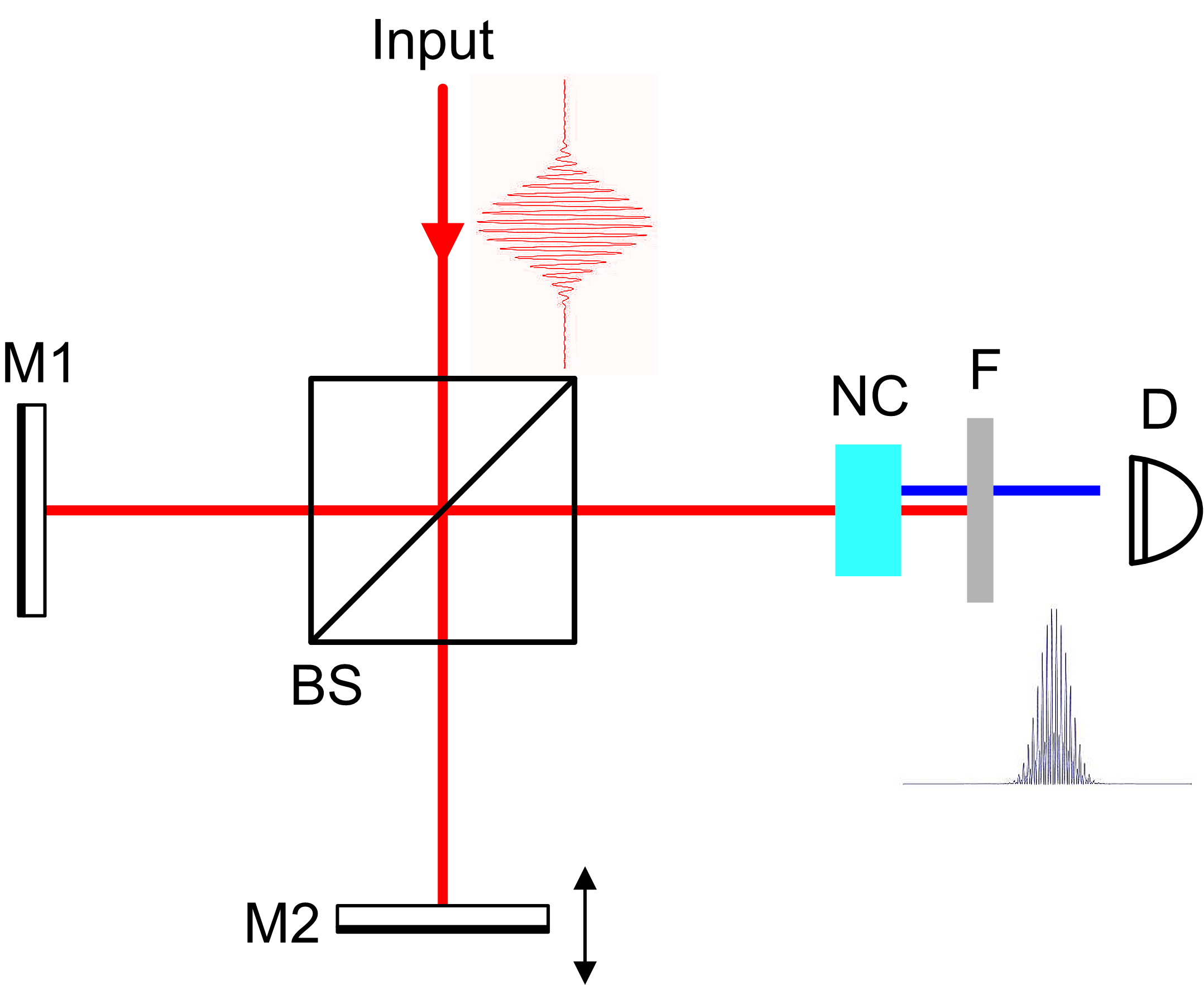 Schematic setup of an autocorrelator. BS: Beamsplitter, M1 and M2: Mirrors, M2 is placed on a delay line, NC: Nonlinear crystal for SHG (e.g. BBO), F: Filter to suppress the fundamental light, D: Detector.